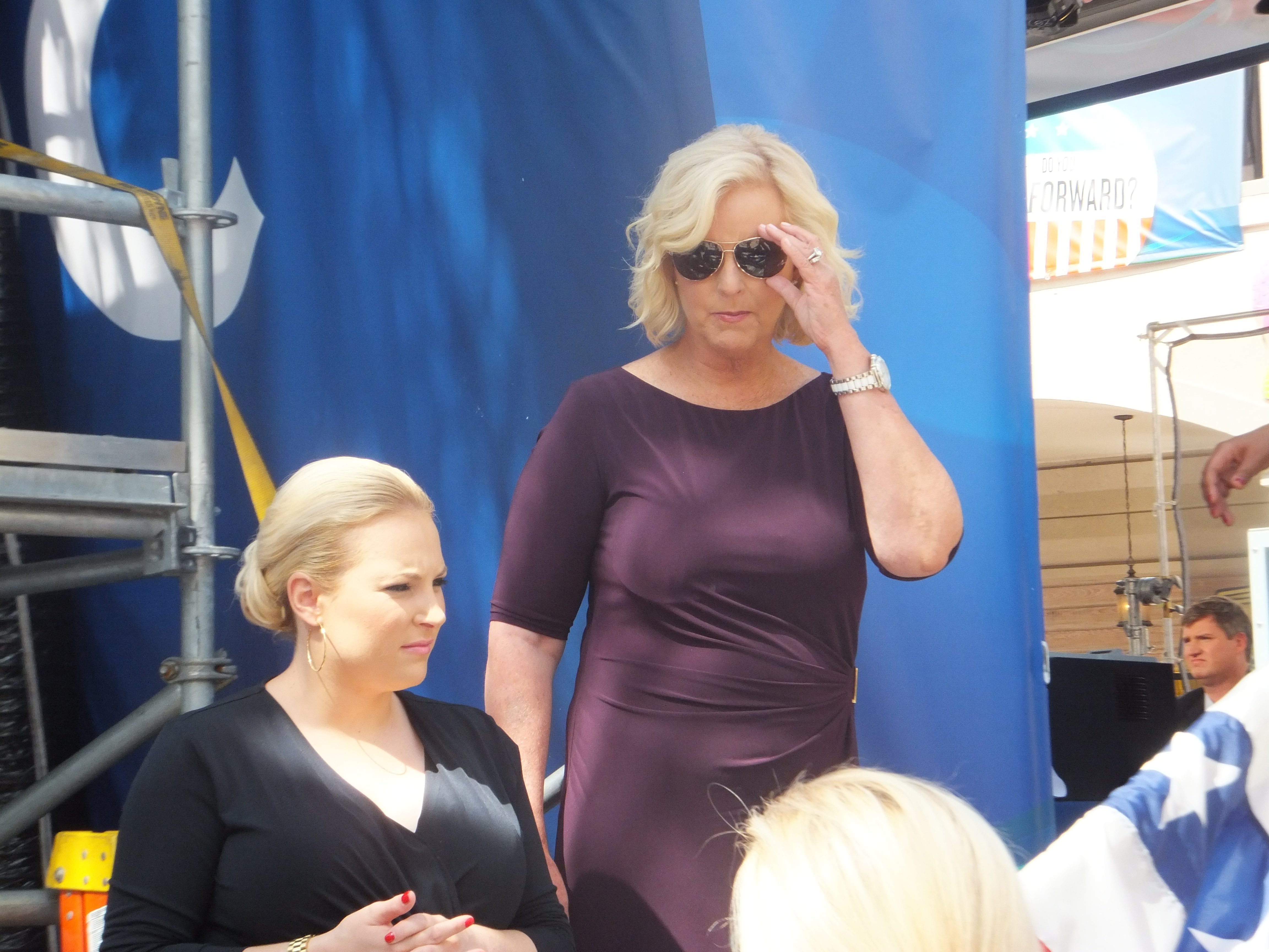 Cindy McCain and Meghan McCain